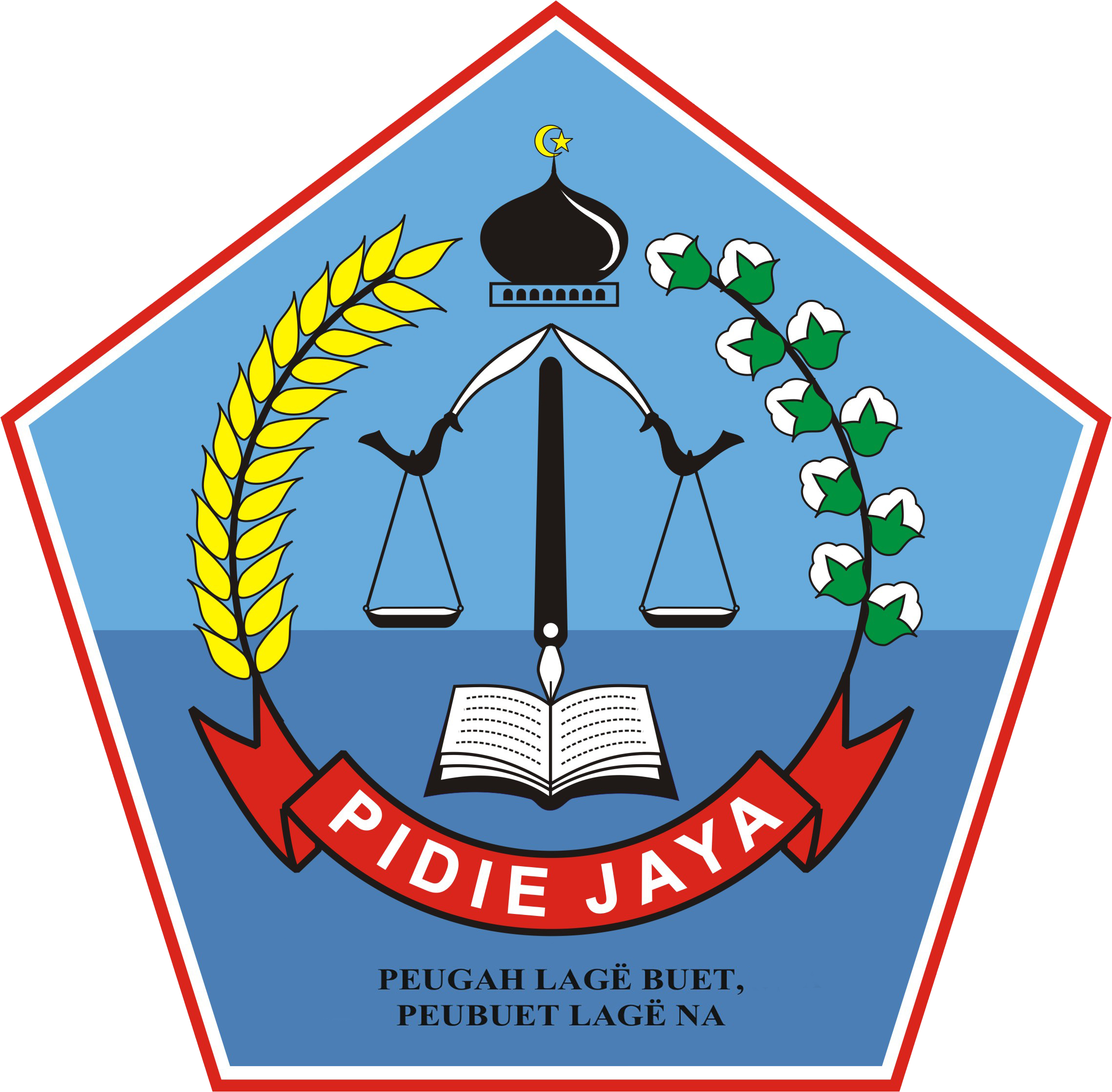 Coat of Arms, or Symbol (Lambang) of Regency (Kabupaten) of Pidie Jaya in Aceh Province, Indonesia